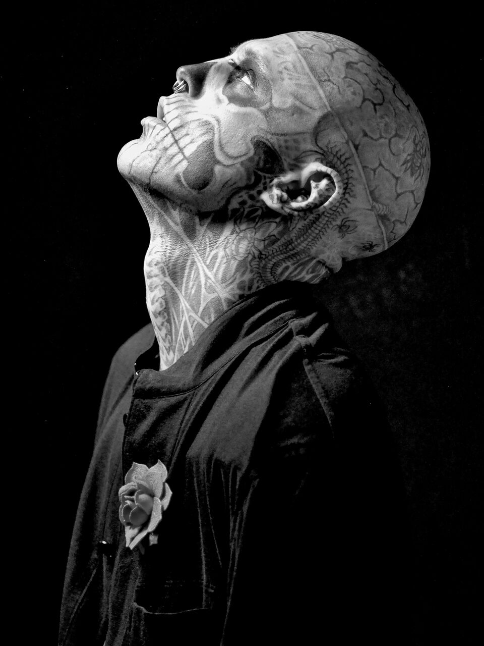 Rick Genest, aka Zombie Boy, as taken by Colin R. Singer